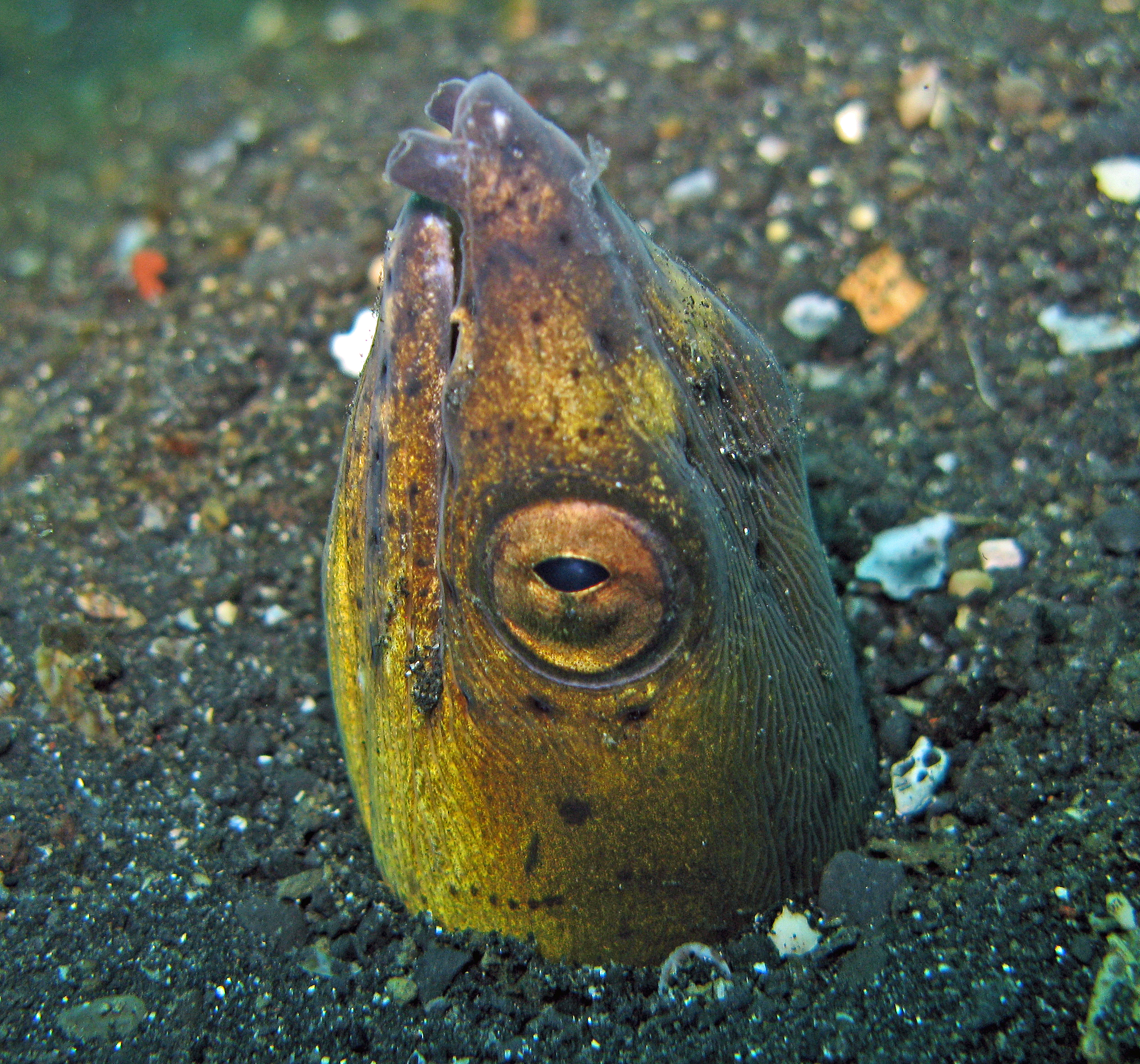 Burrowing snake eel - Pisodonophis cancrivoris; Indonesia - North Sulawesi - Lembeh Street